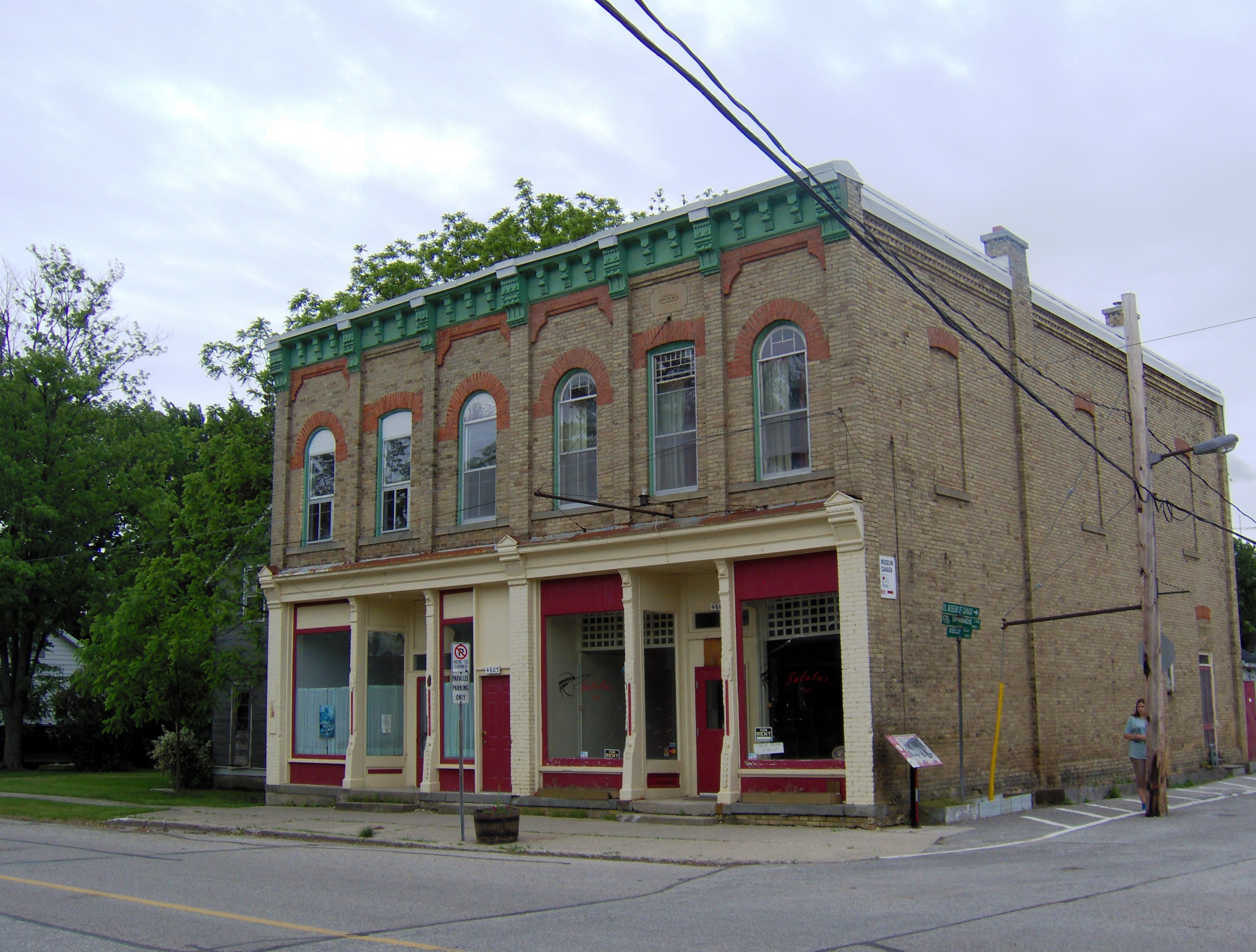 Independent Order Odd Fellows Ridgely Lodge, Oil Springs, Ontario, Canada